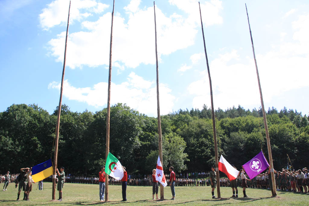 2nd Ukrainian Scout Jamboree 2009 opening ceremony.